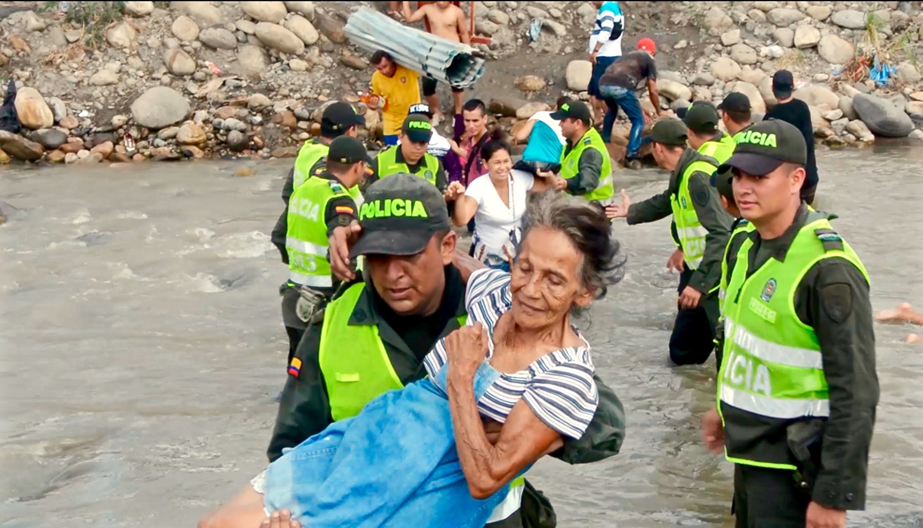 An elderly Colombian refugee being carried by Colombian National Police across the Táchira River from Venezuela into Colombia.